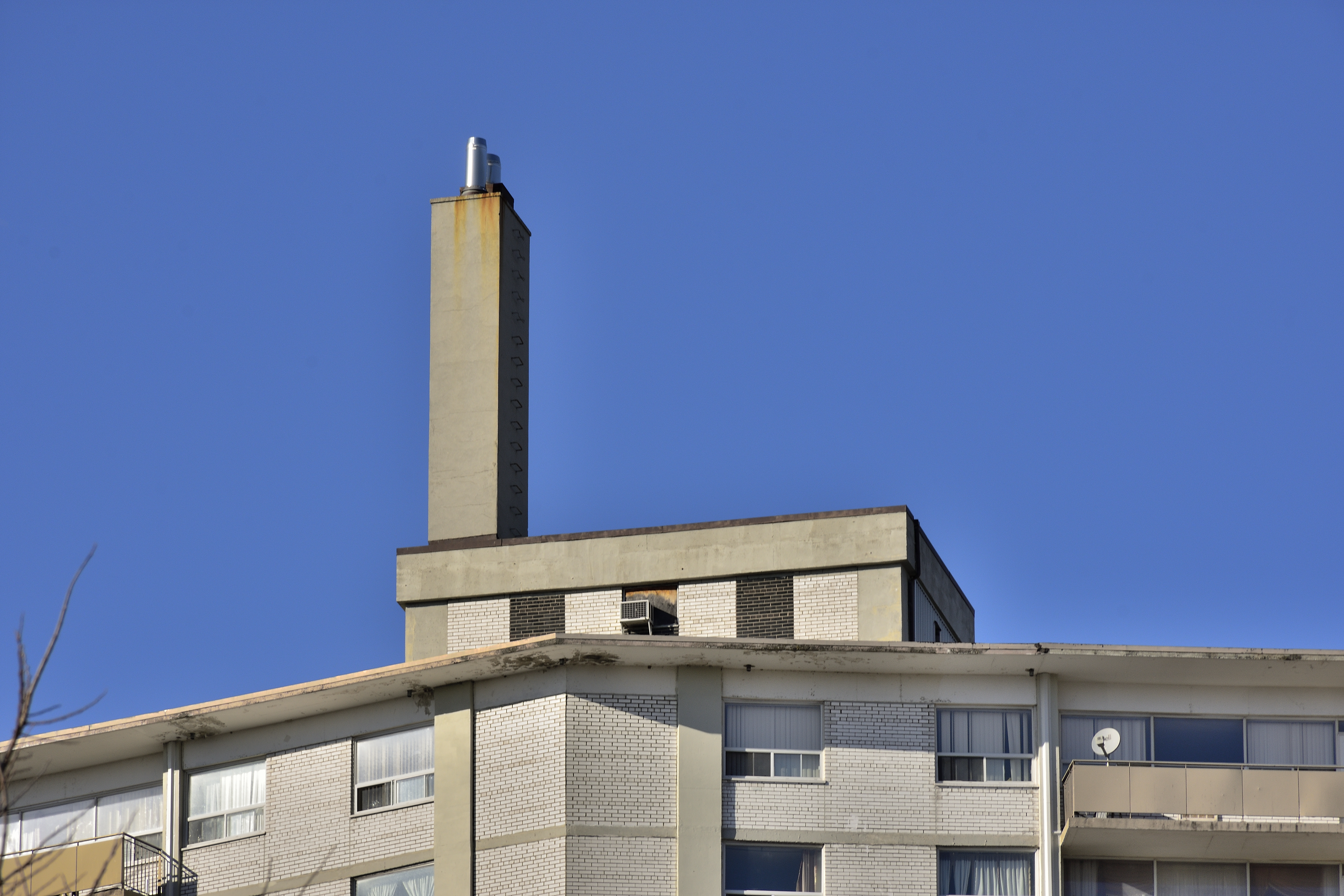 A vertical chimney erected on the mechanical penthouse of a residential high rise in Ontario, Canada for ejecting combustion products from the building's water boiler.